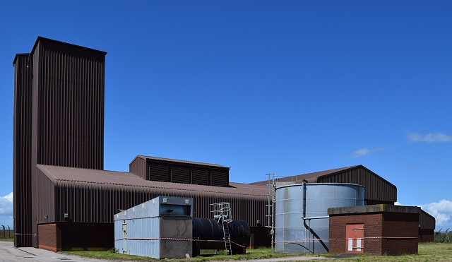 Ex-military building at Machrihanish Airbase. This was one of the two buildings occupied by the US Navy Seals and includes an indoor range which is now occupied by the civilian Machrihanish Gun Club. The towers were used for drying parachutes.